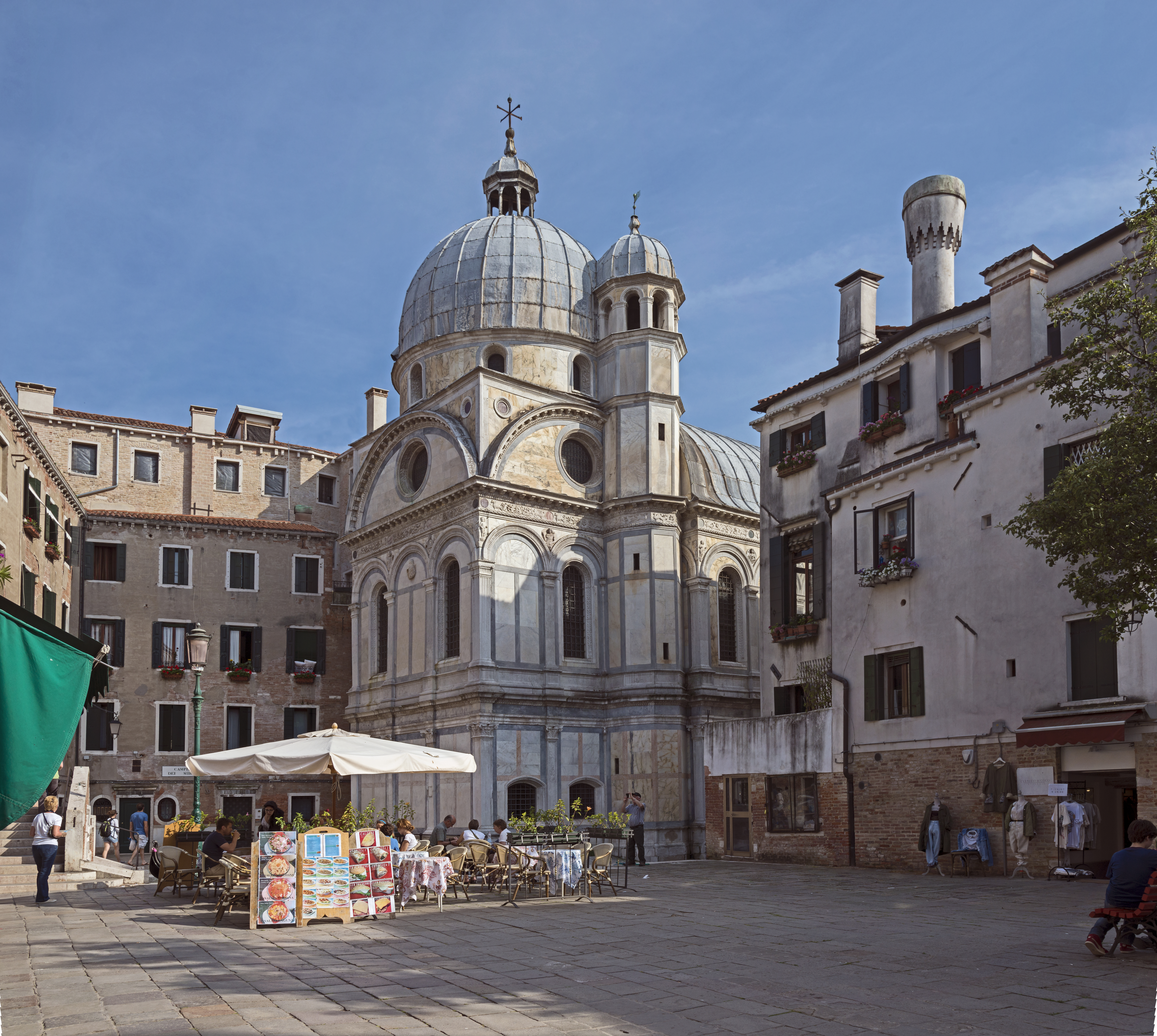 Church of Santa Maria dei Miracoli in Venice; Apse on Campo Santa Maria Nova